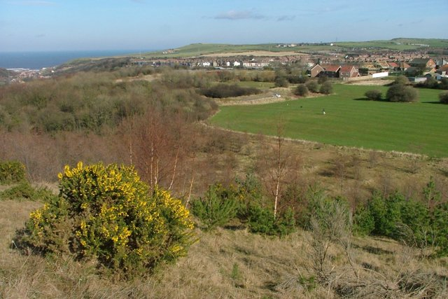 View Over Liverton Mines, North Yorkshire